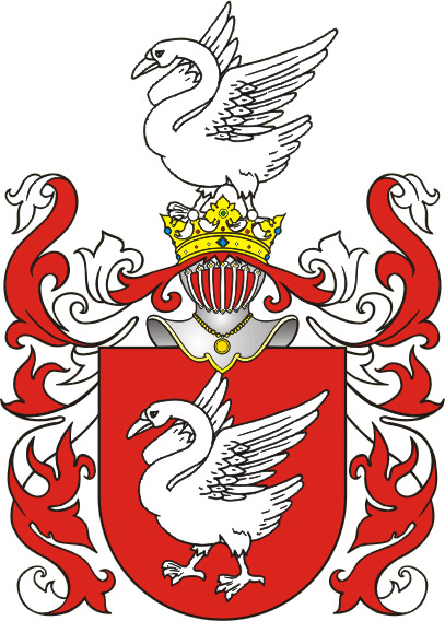 Herb Labedz Clan This image was uploaded in the JPEG format even though it consists of non-photographic data. This information could be stored more efficiently or accurately in the PNG or SVG format. If possible, please upload a PNG or SVG version of this image without compression artifacts, derived from a non-JPEG source (or with existing artifacts removed). After doing so, please tag the JPEG version with Superseded|NewImage.ext and remove this tag. This tag should not be applied to photographs or scans. For more information, see BadJPEG .